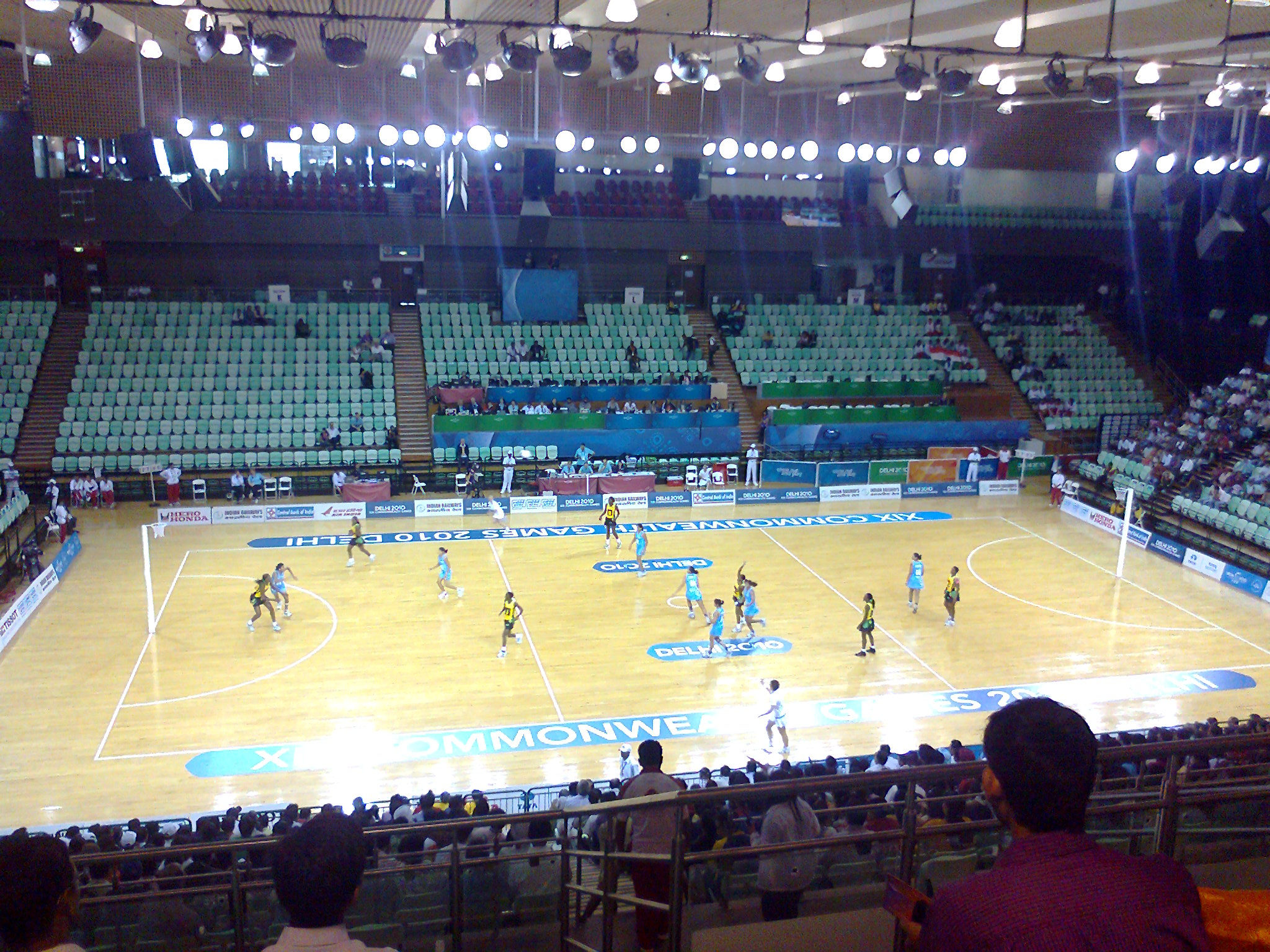 India vs Jamaica Netball match at Thyagaraj Sports Complex during CWG 2010